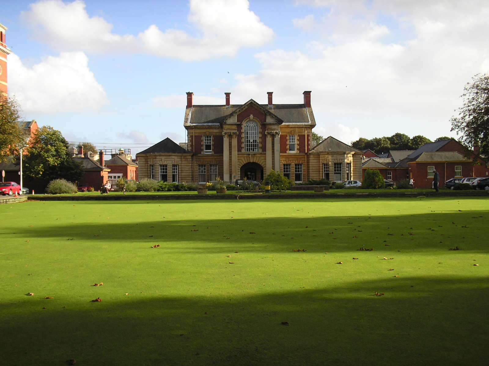 Main entrance of Whitchurch Psychiatric Hospital, Cardiff, UK, viewed across the bowling green.